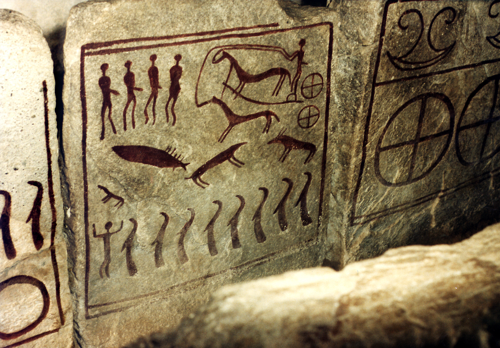 Rock carving Kivik Sweden.